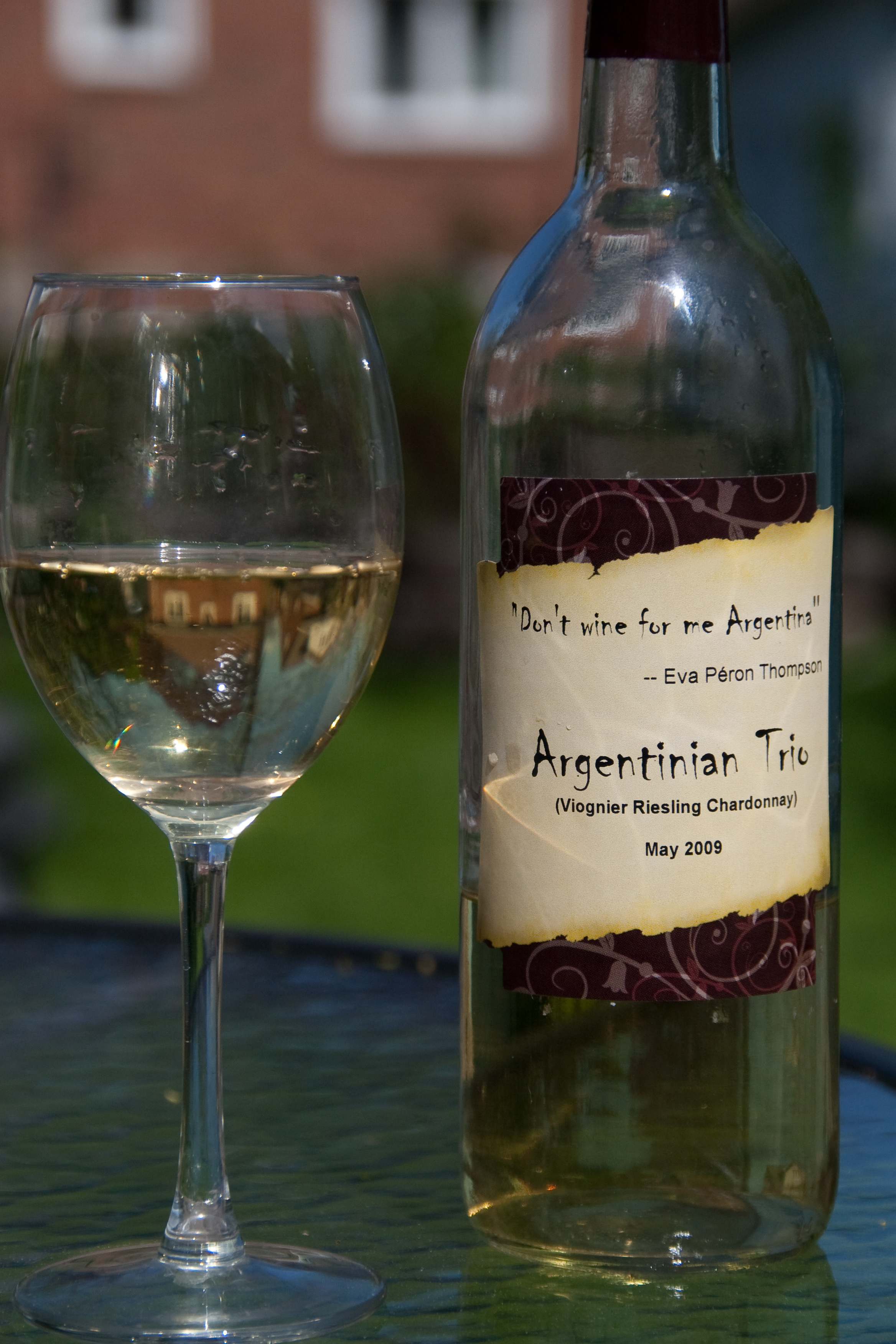 A white blended wine from Argentina.